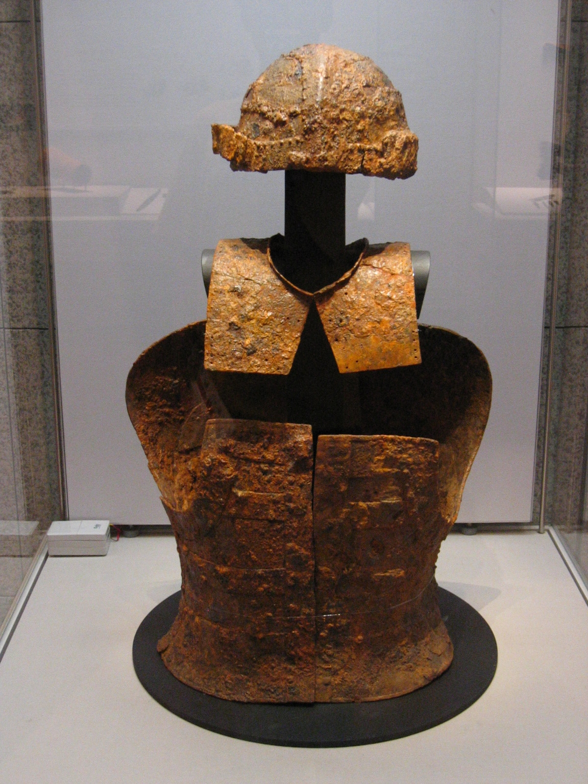 Ancient Korean Gaya iron armor. Use this one please, the other is not upright.